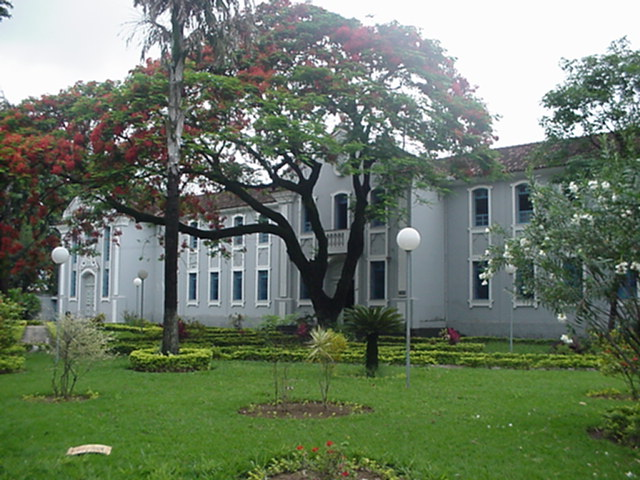 Angélica College in the year of 2007, in Coronel Fabriciano, Minas Gerais, Brazil.